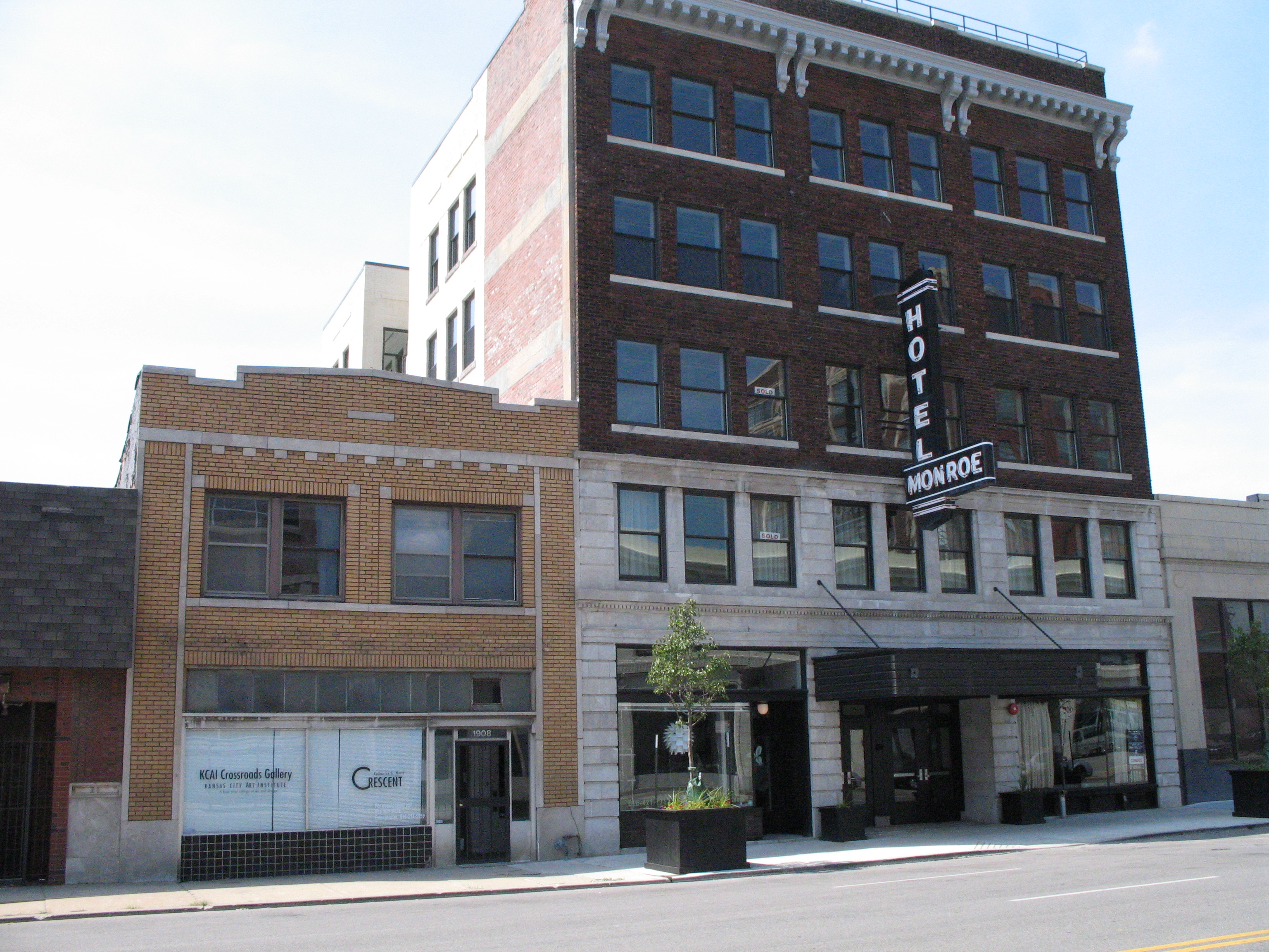 Tom Pendergast headquarters at 1908 Main and Monroe Hotel in Kansas City.